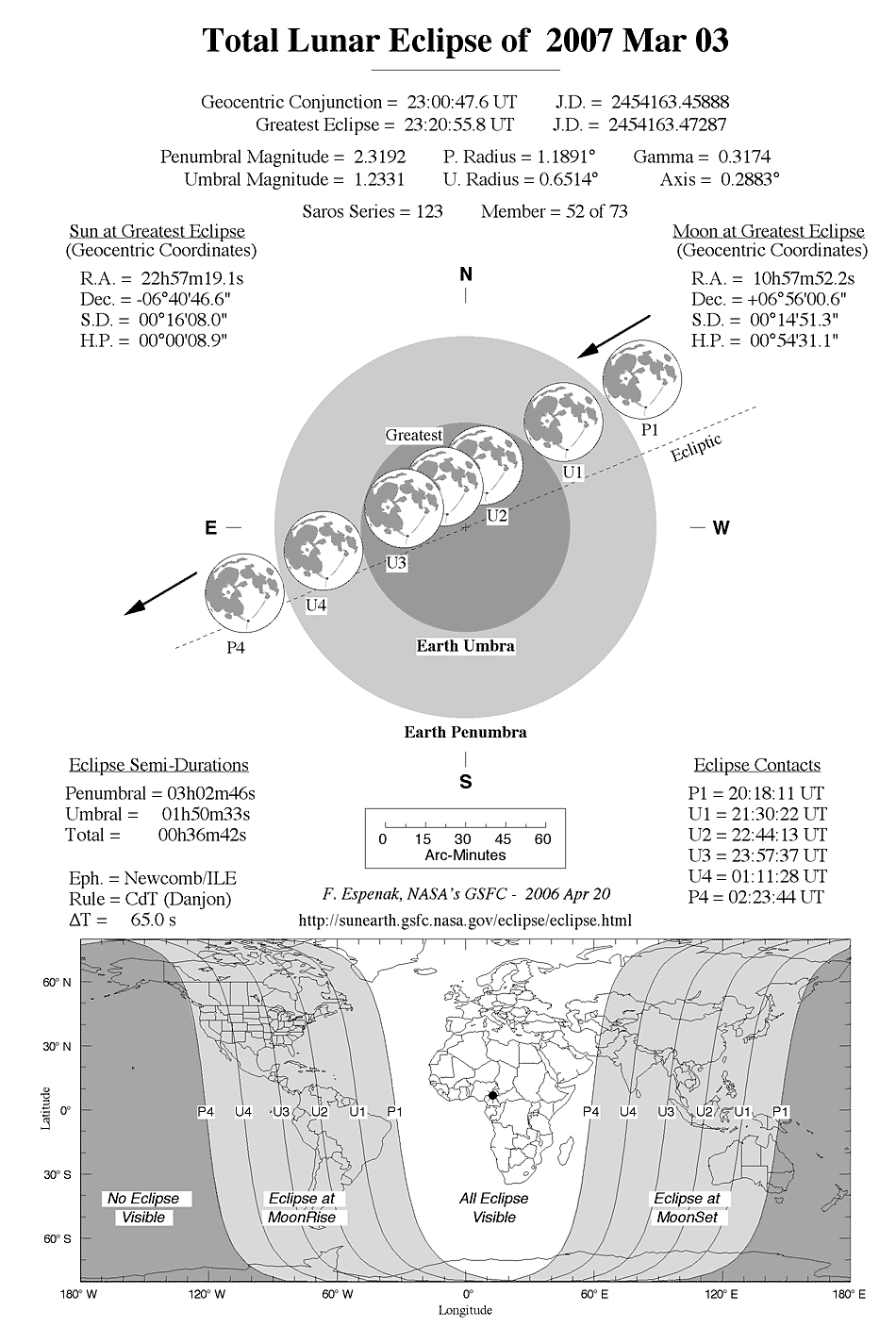 Map of the total lunar eclipse of 2007 Mar 03